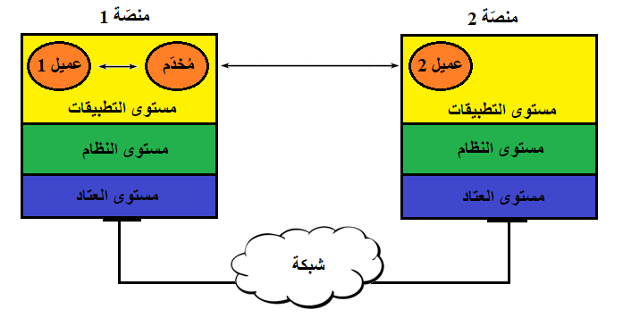 Client/Server Model Architecture.